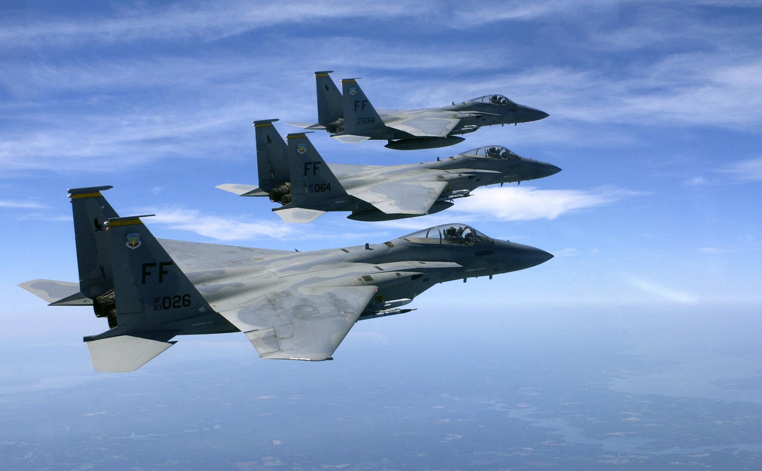 Final F-15 flight of the 27th Fighter Squadron, September 2004